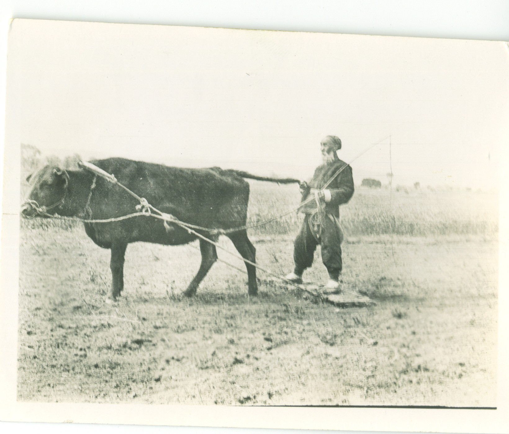 Scan of image of farmer harrowing a crop near Xi'an, China, c. 1908 taken by Baptist missionary John Shields.